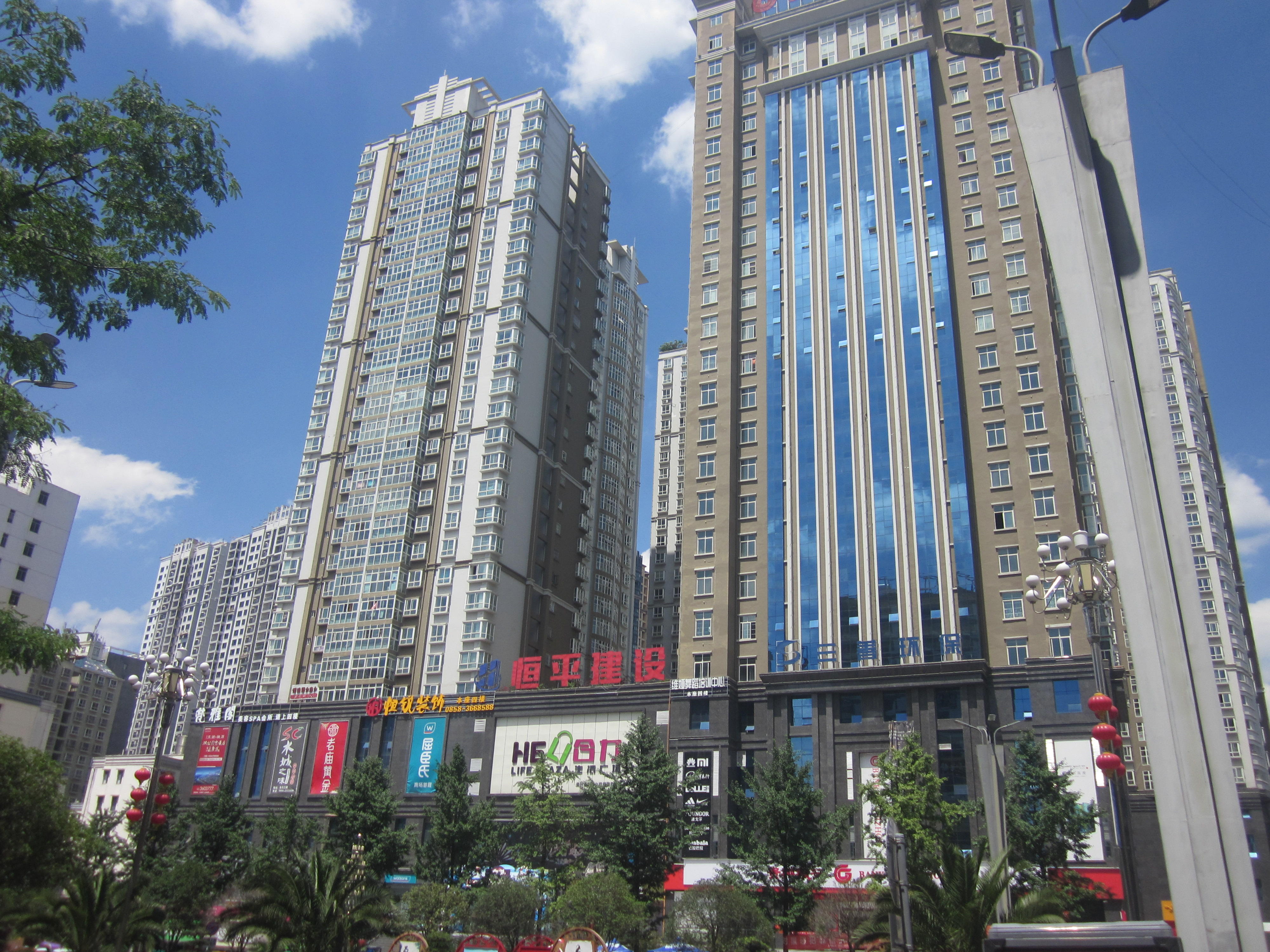 The Guizhou Bank Building in downtown Panzhou, Guizhou, China.